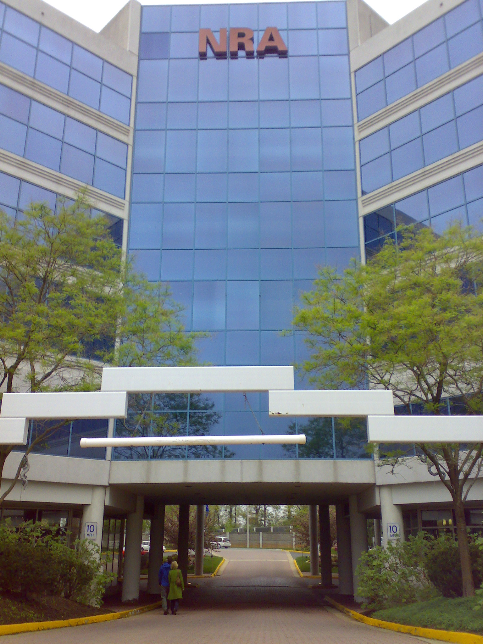 NRA Headquarters, Fairfax Virginia USA